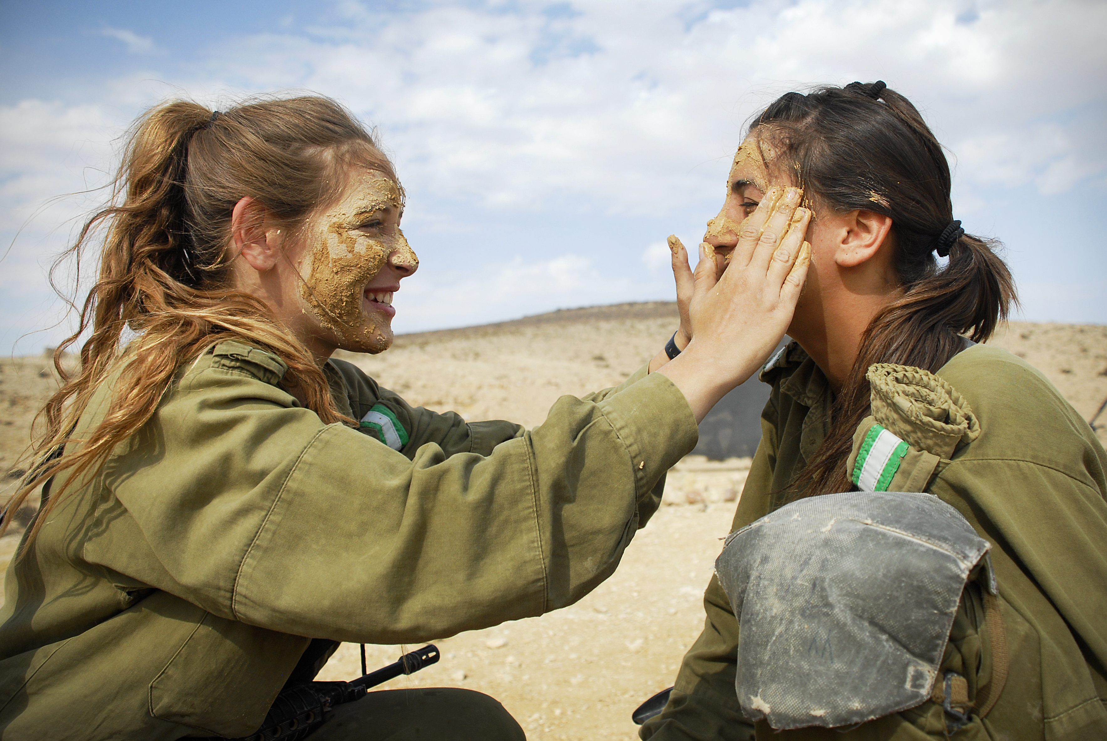 November 16, 2010. The Infantry Instructors Course includes a "Field Week" during which soldiers experience drills, live fire, combat exercises, sleeping out in the open, and other aspects of operational activity. The course is held in the Infantry Training School in southern Israel and is attended mostly by girls. Photo by Iris Lainer, IDF Spokesperson's Film Unit.